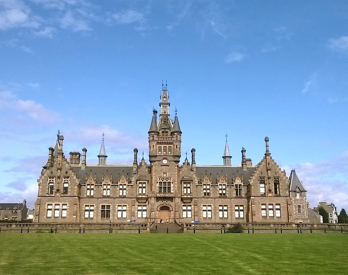 Morgan Academy In Dundee